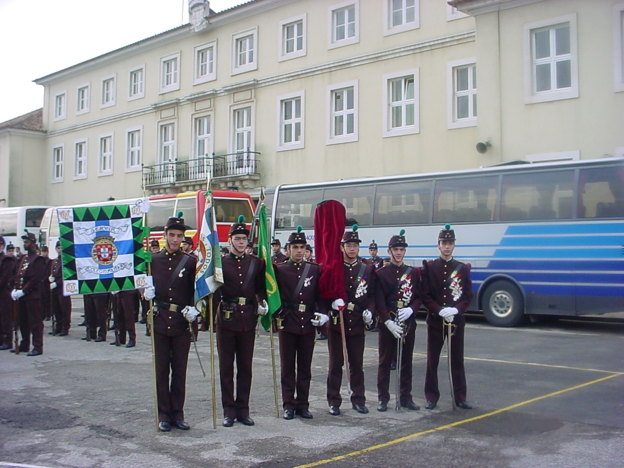 Photograph of the students in the Military School of Portugal.